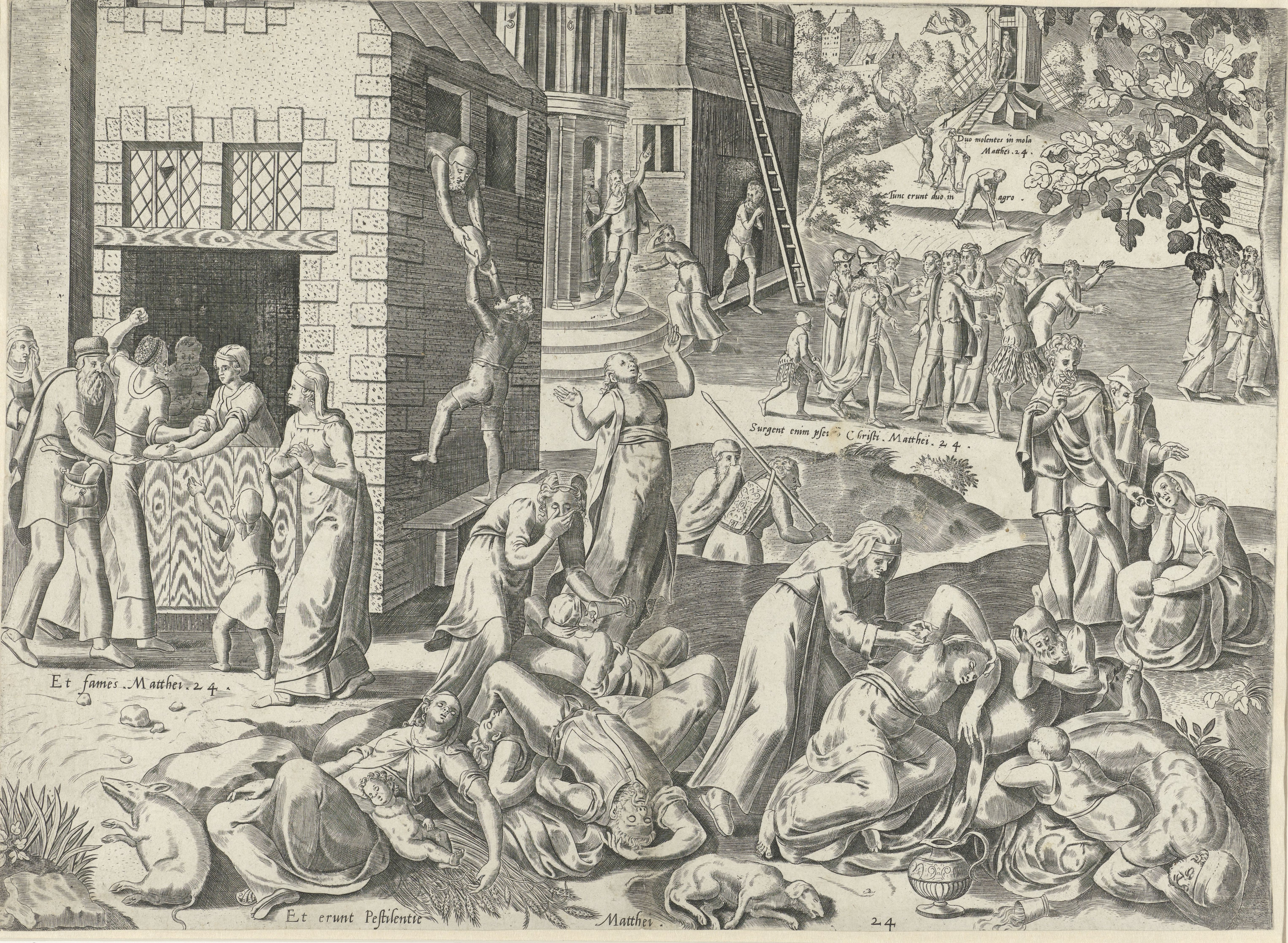 Christ's Prophecy of the End of the World